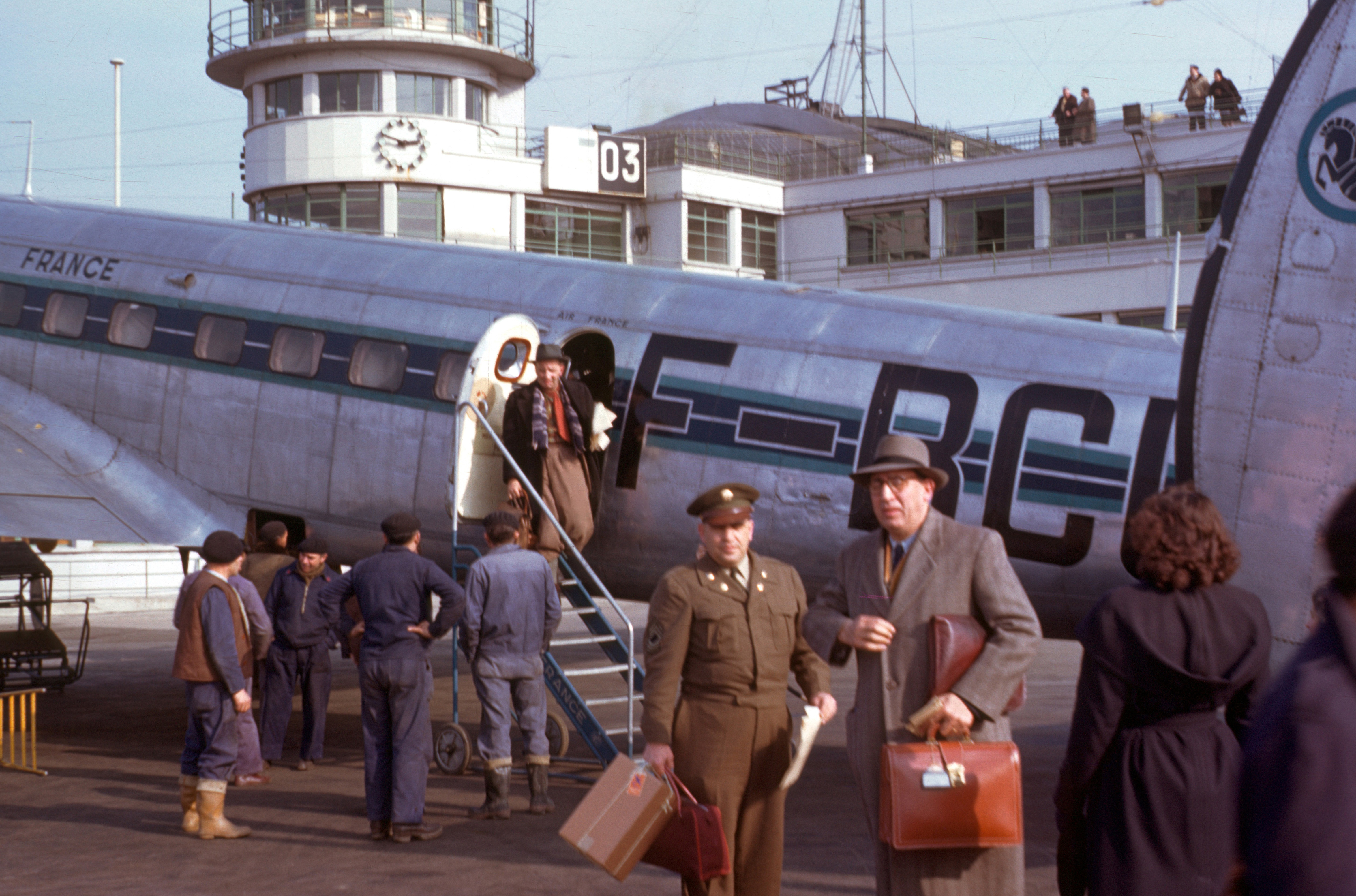 Passengers disembarking from an Air France Sud-Est SE-161 Languedoc.